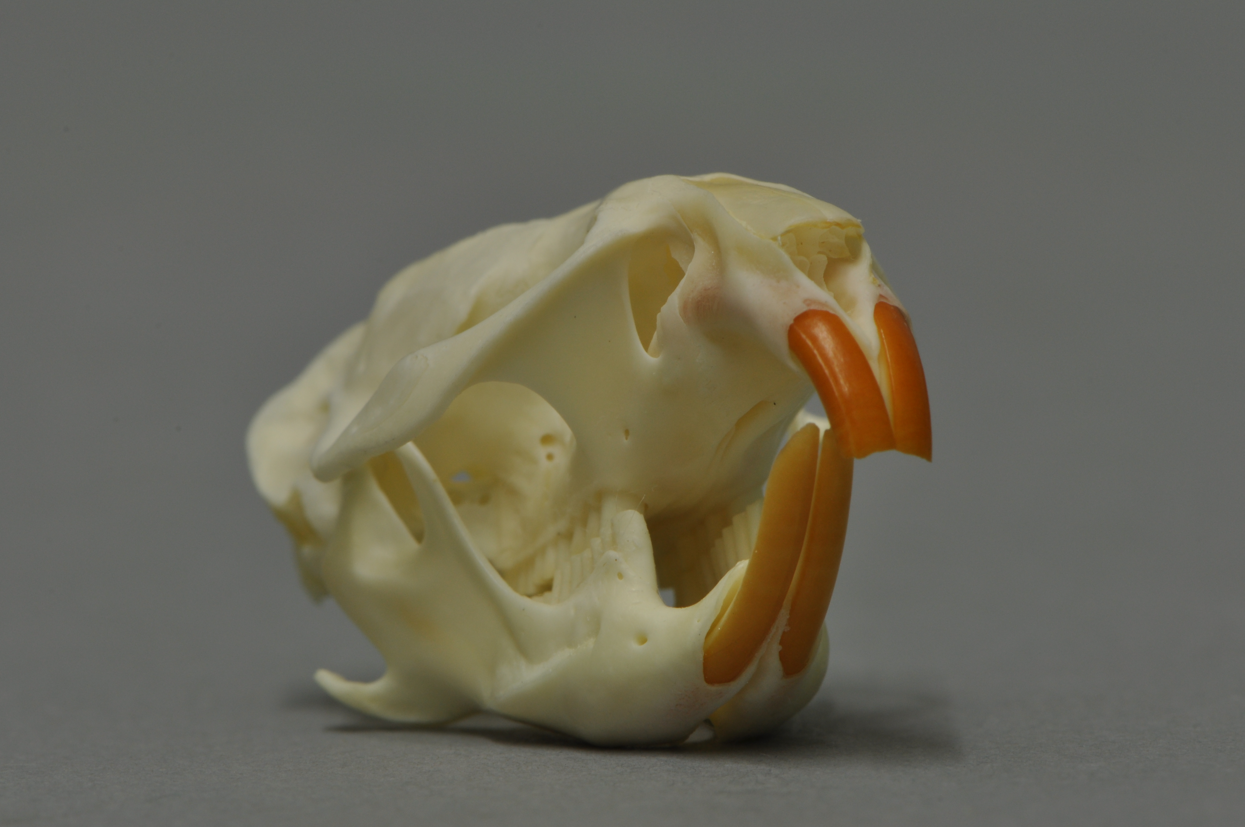 European water vole Arvicola terrestris, skull, Coll. Museum Wiesbaden